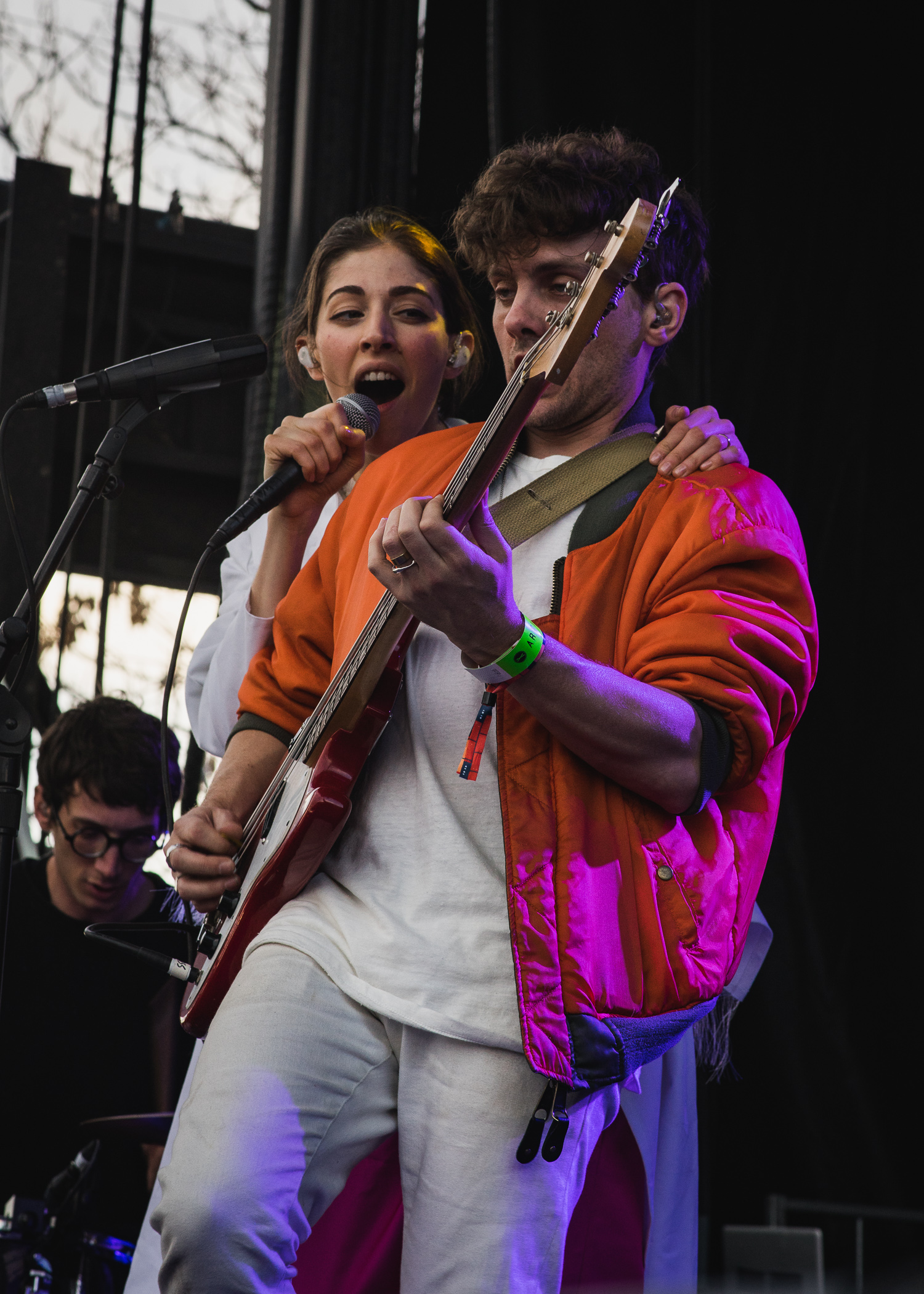 Chairlift at Main Stage during Treefort 2016